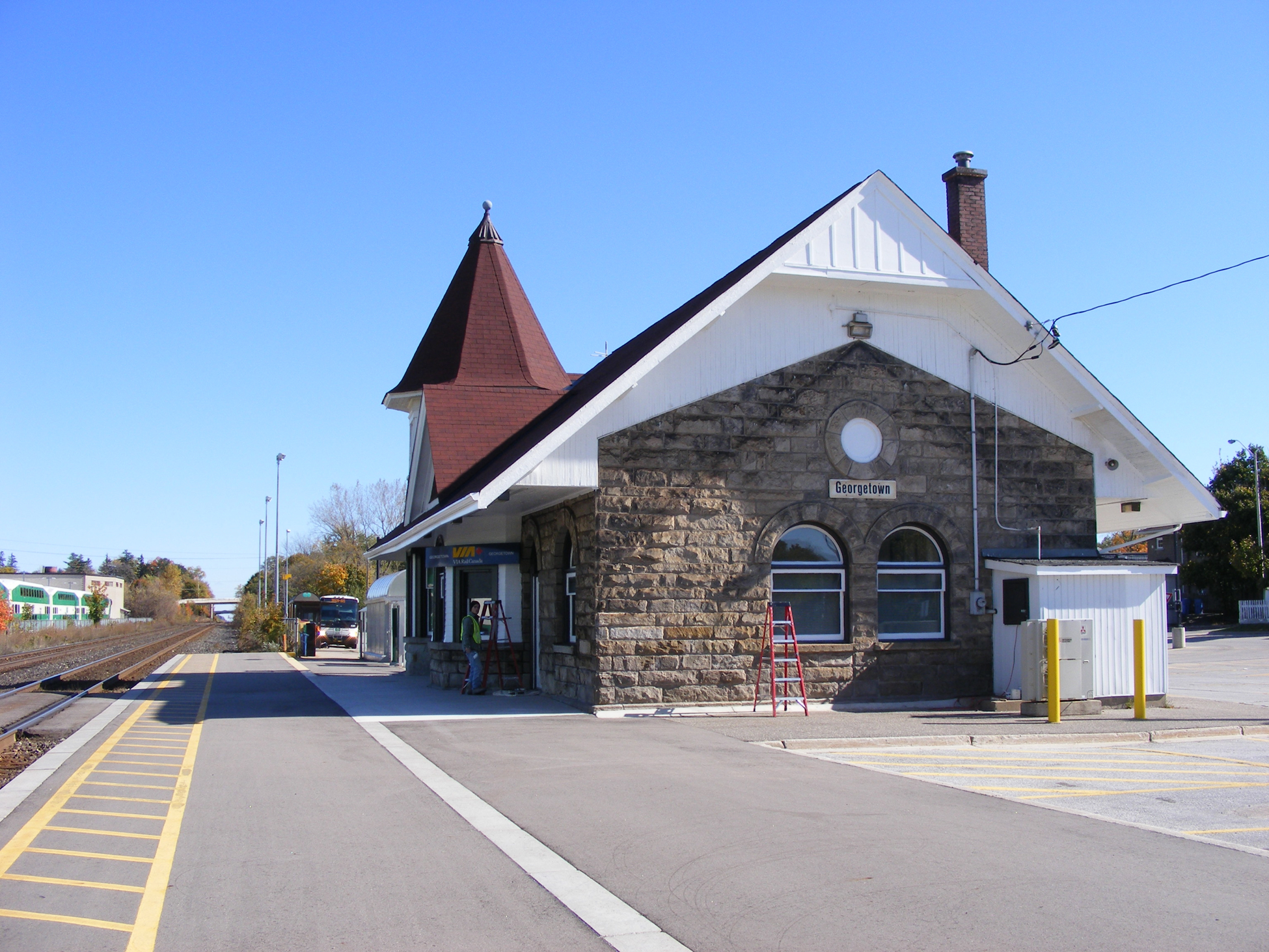 Railway station in Georgetown, Ontario (served by VIA and GO trains).